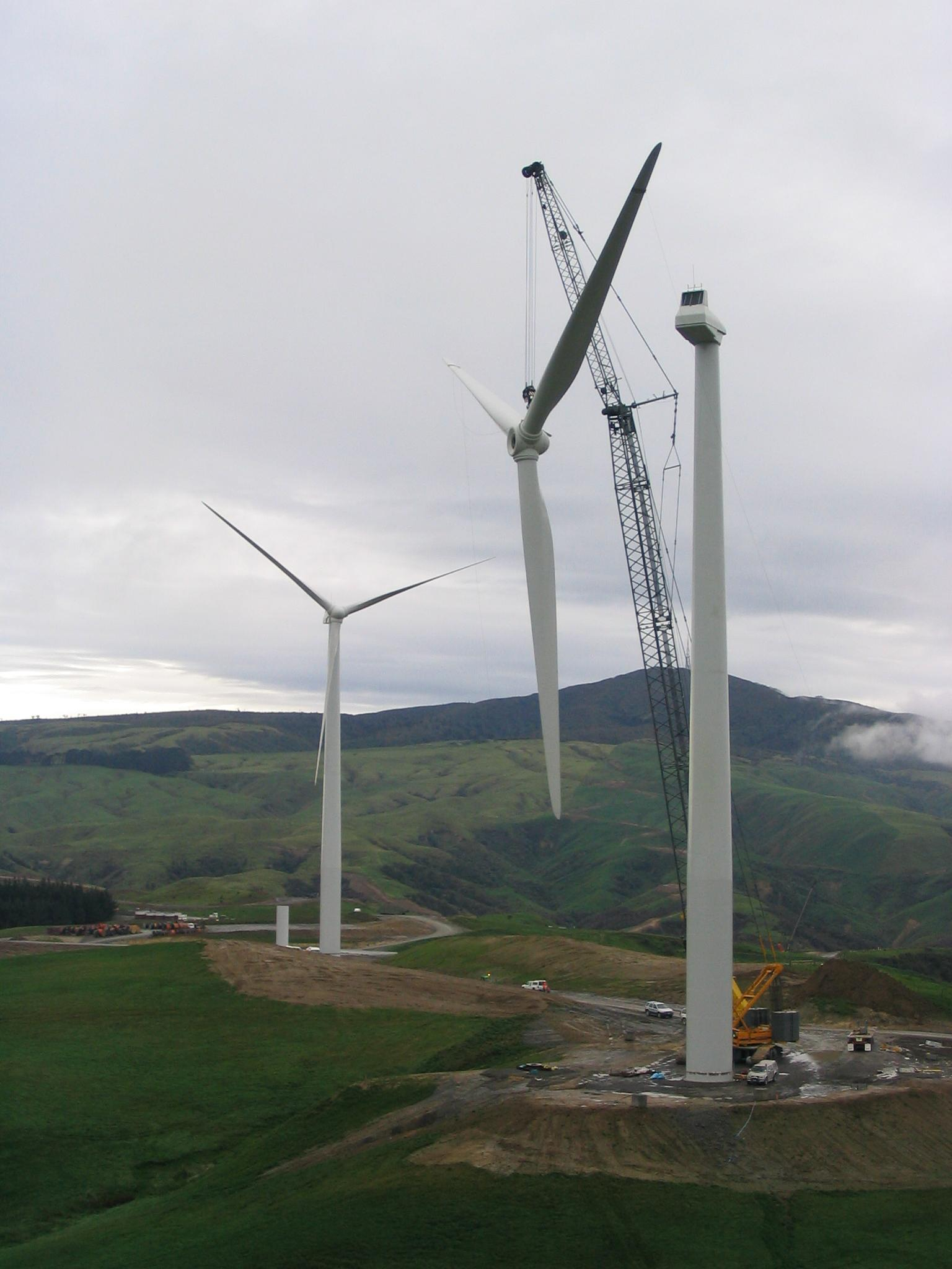 Construction of the Te Apiti Wind Farm, showing the blade-hub assembly being lifted into position, before attachment to the nacelle. Photo taken by Sendervictorius August 2004.